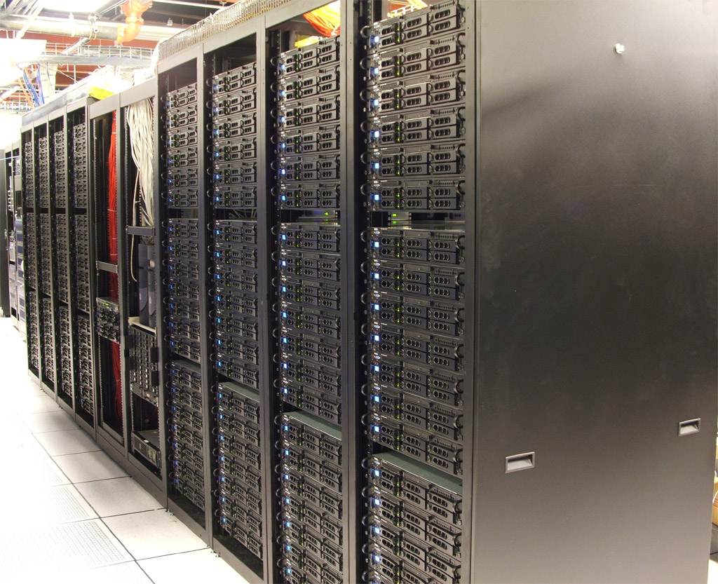 Front view of one of the Emulab clusters.